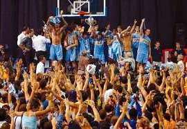 Cordón Campeón Federal 2002